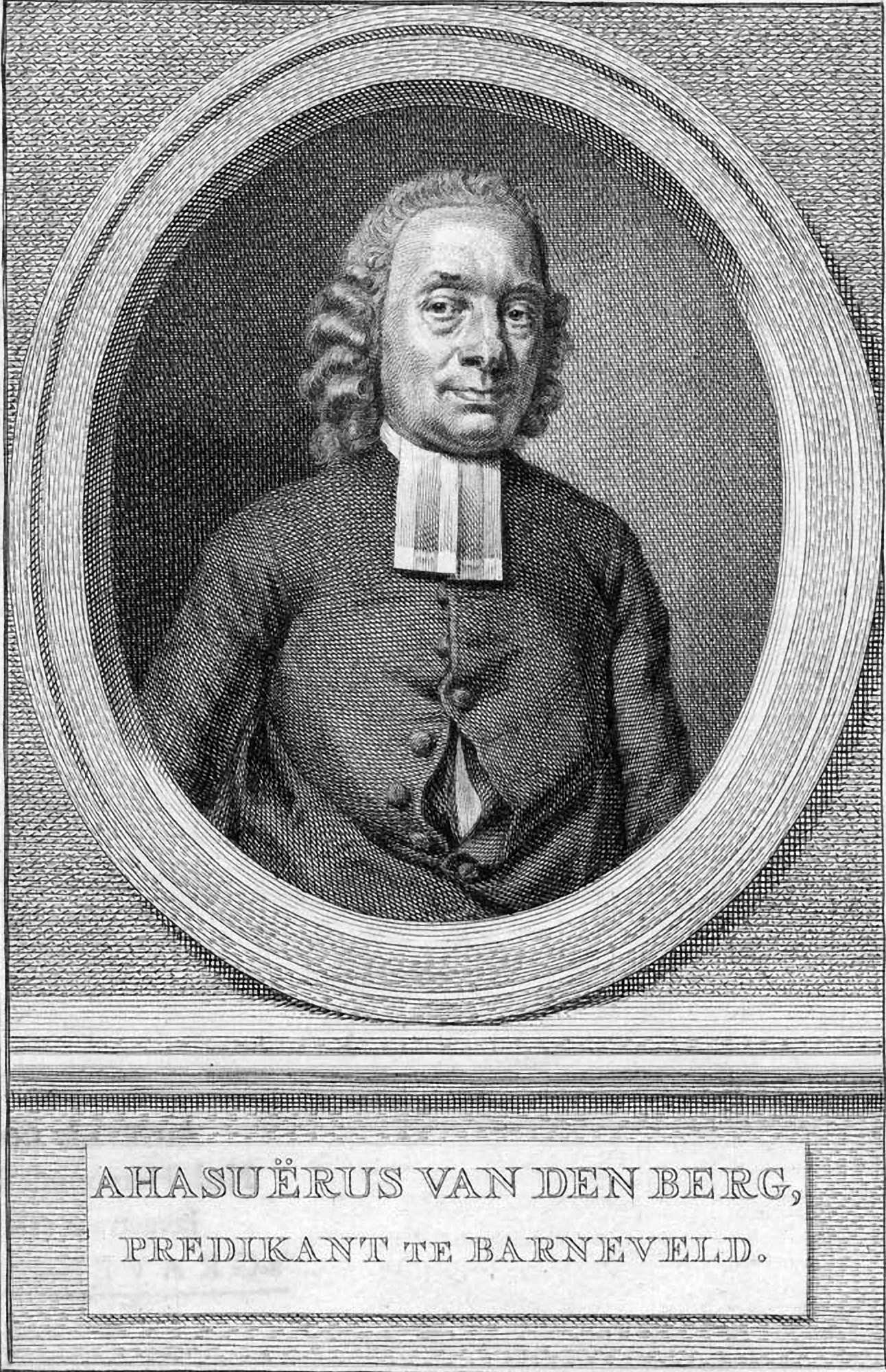 Ahasverus van den Berg (1733-1807) Dutch Reformed theologian